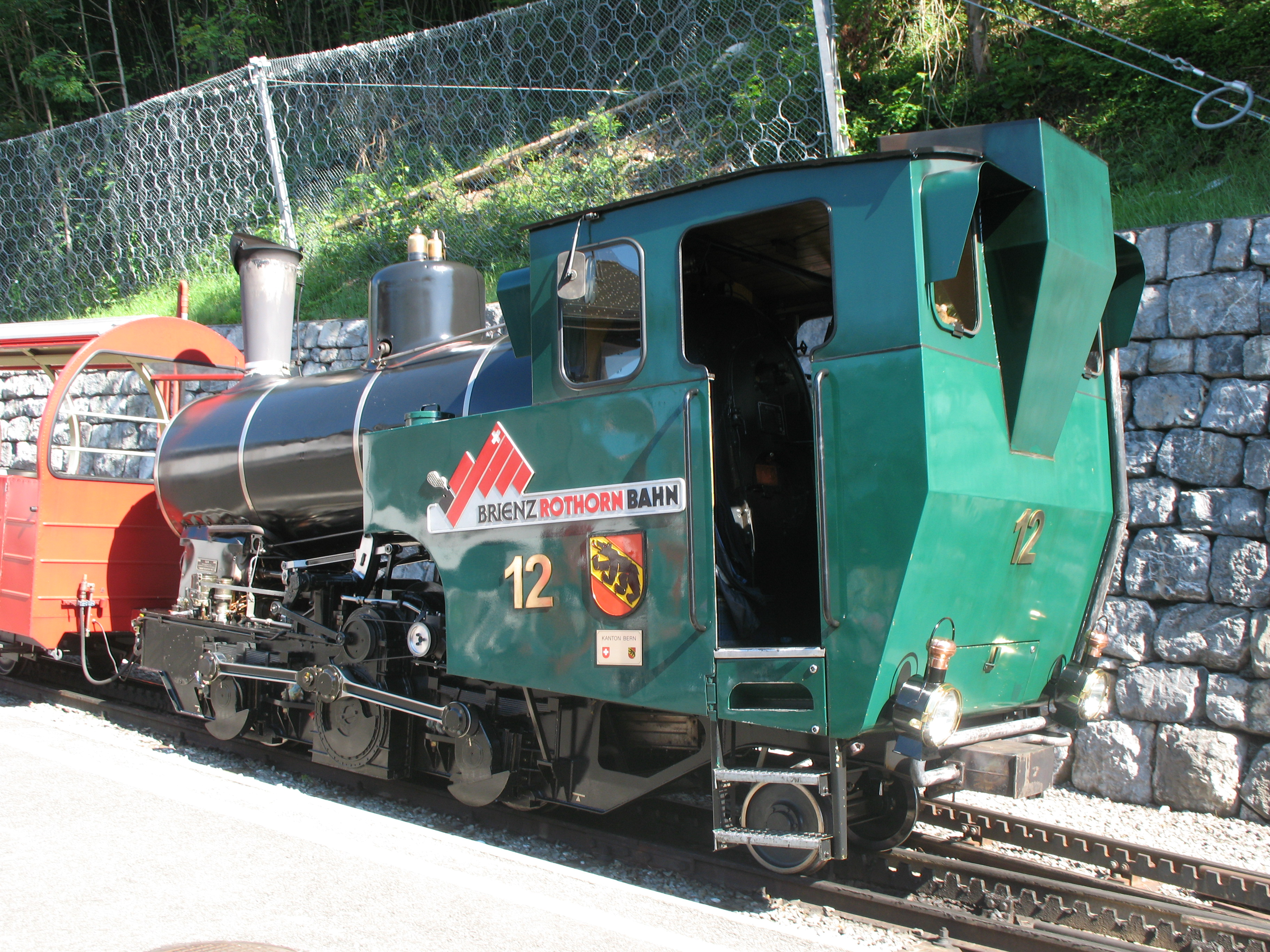 Brienz Rothorn Bahn (BRB) H 2/3 #12, Brienz, Switzerland